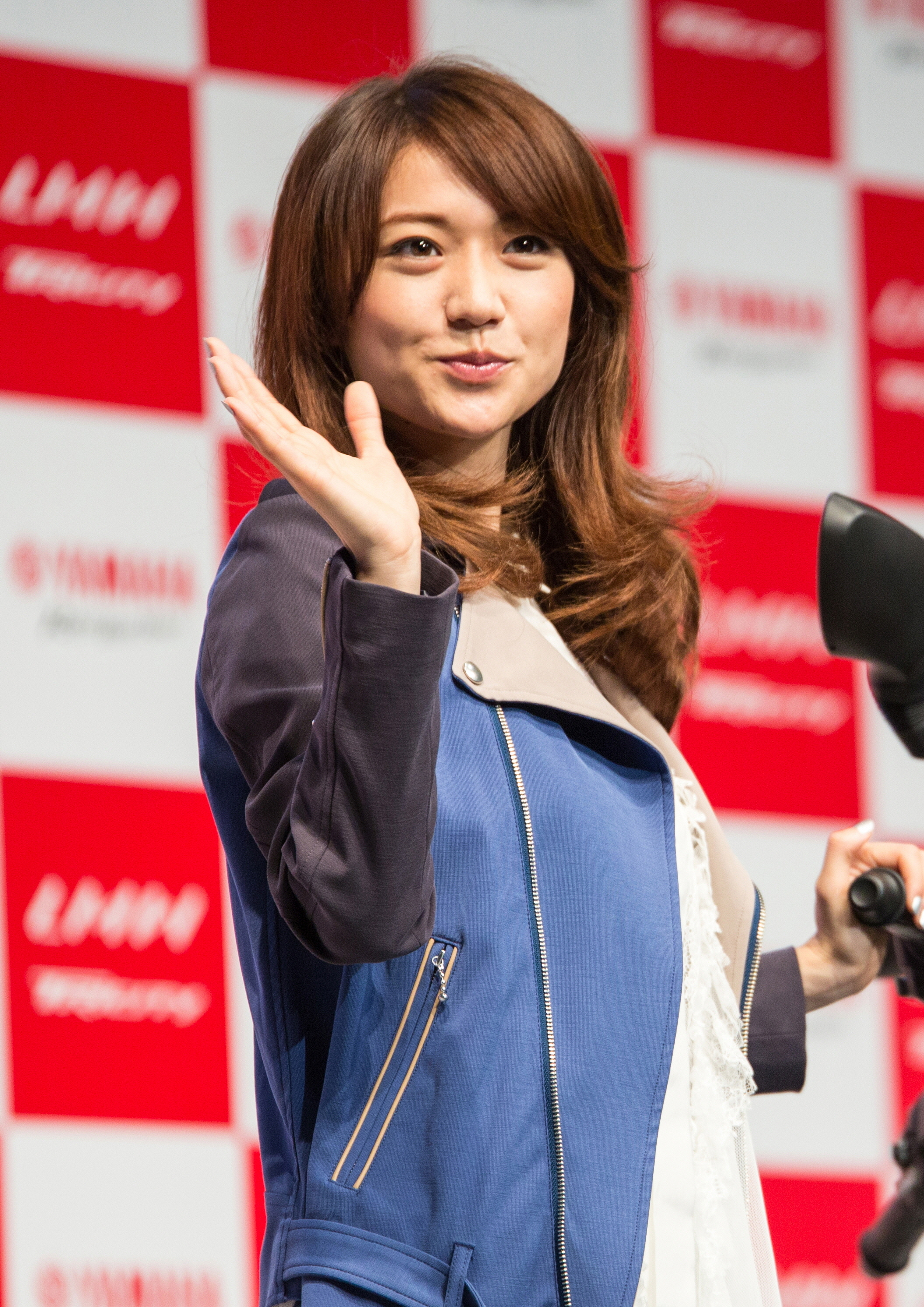 Yūko Ōshima in Yamaha Tricity launching event, on July 1, 2014